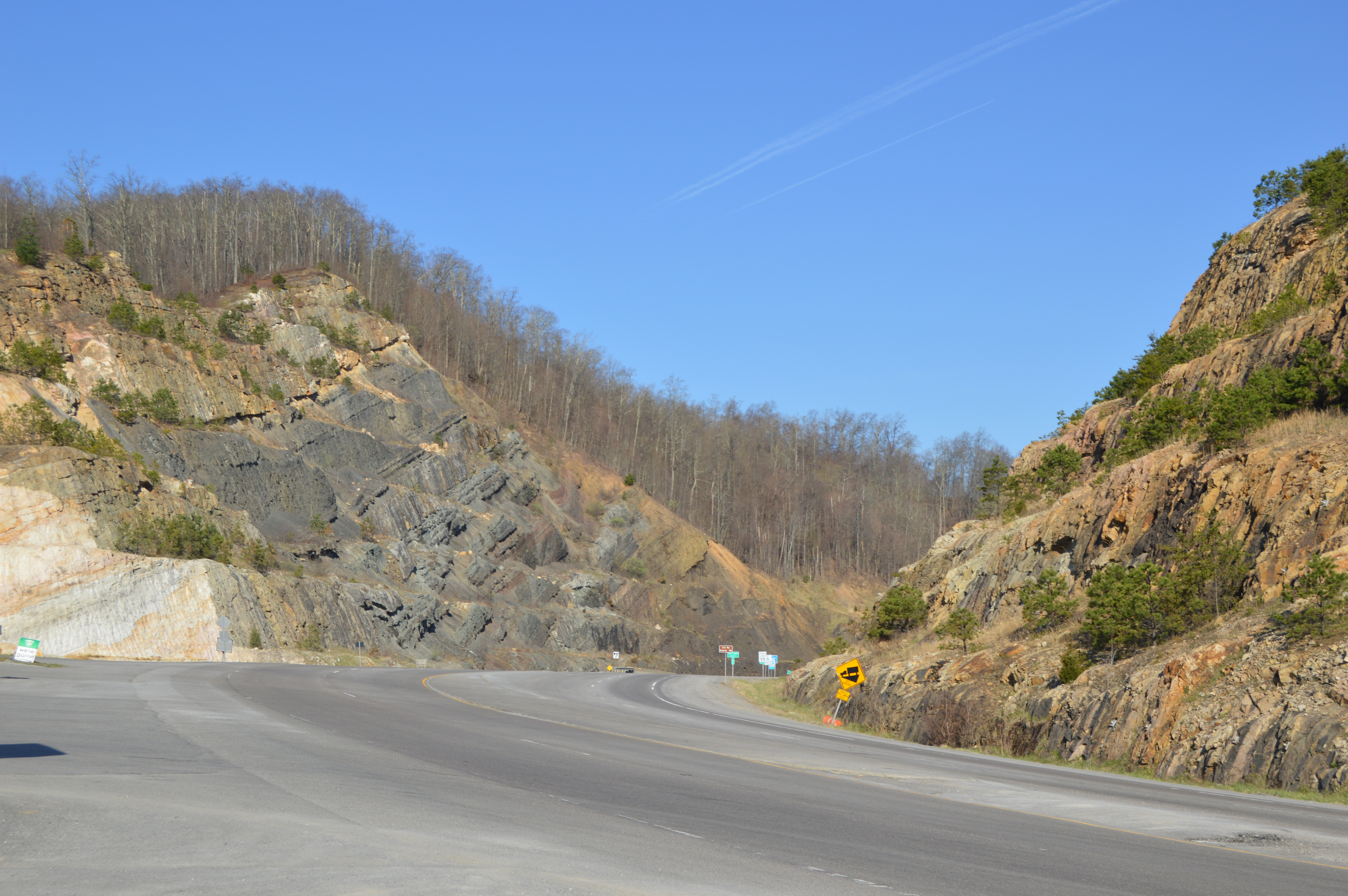 Looking westward along U.S. Route 23 into the main cut atop Pound Gap, a mountain pass in the Cumberland Mountains of the United States. Photo is taken in Wise County, Virginia, while the more distant areas of the picture are part of Letcher County, Kentucky.